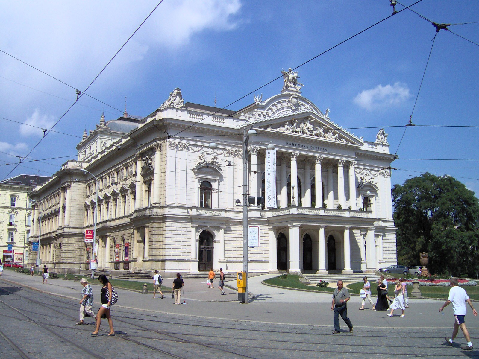 Mahen theater, Brno, Czech Republic